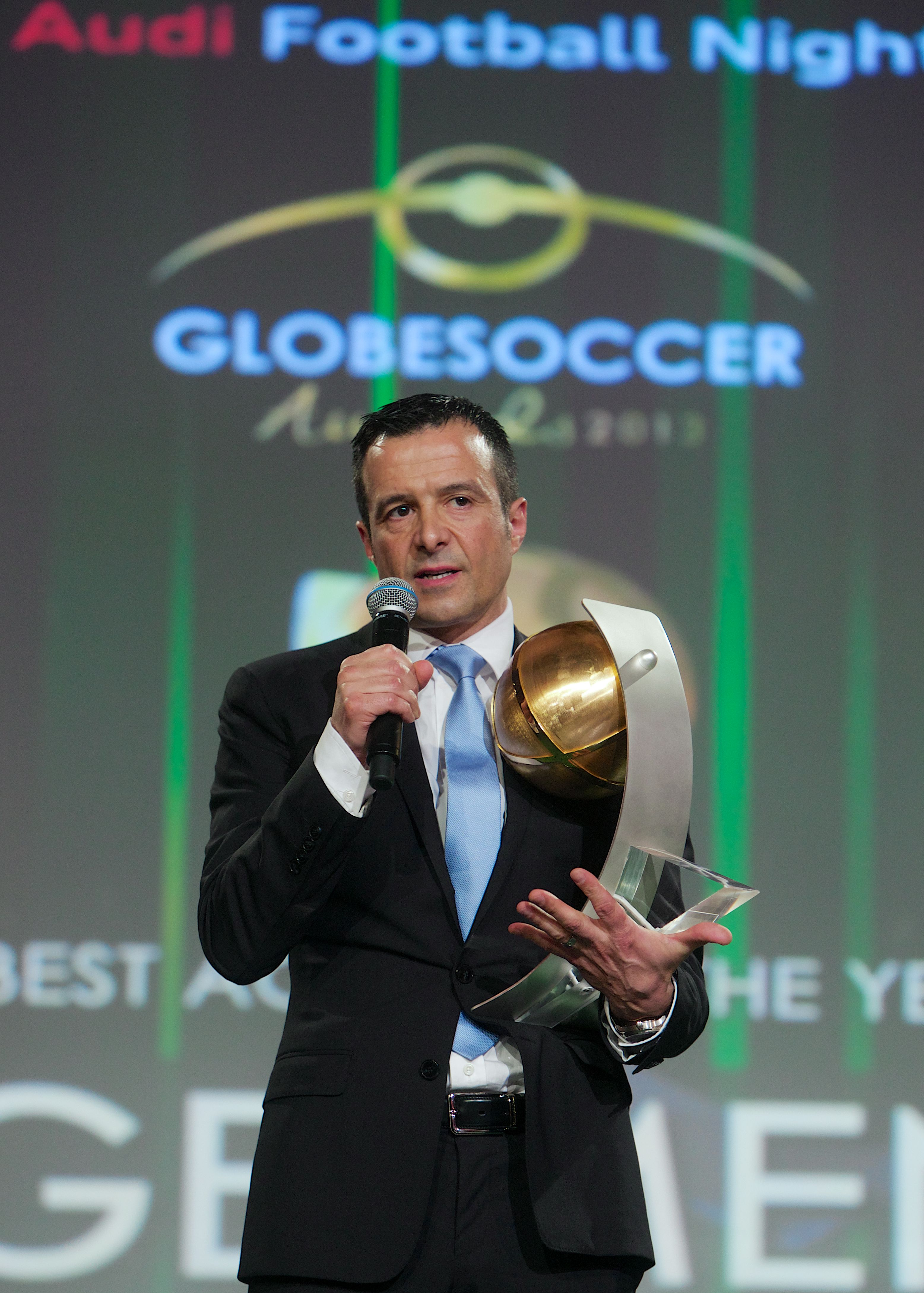 Jorge Mendes - BEST AGENT OF THE YEAR